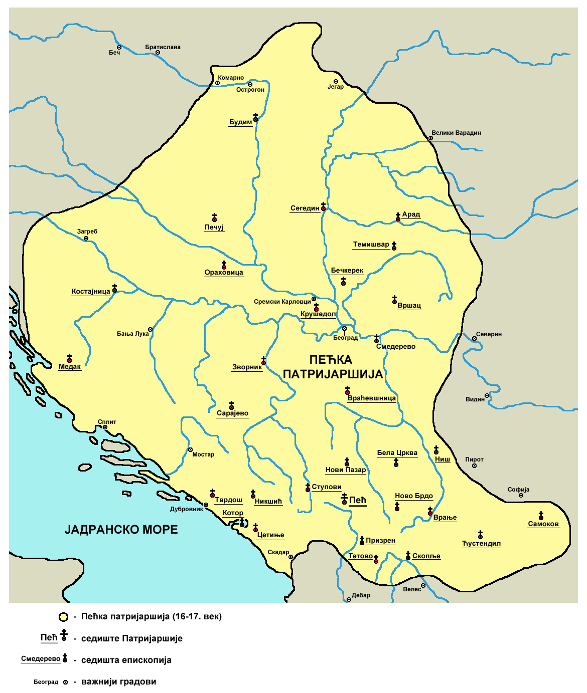 Patriarchate of Peć (16th-17th century).